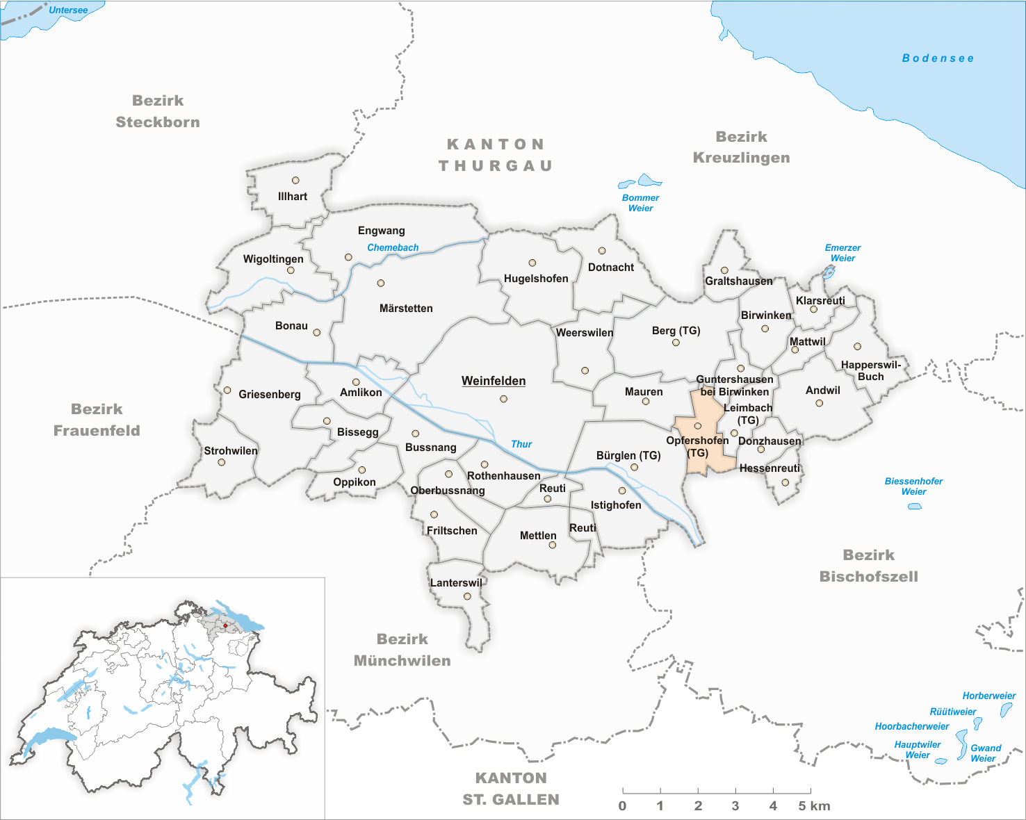 Municipality Opfershofen